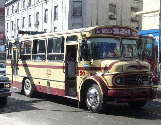 Bus (#330) with Mercedes-Benz LO chassis in Buenos Aires or Buenos Aires Province, Argentina. Colectivo, line 324, Micro Ómnibus Primera Junta S.A. operator.